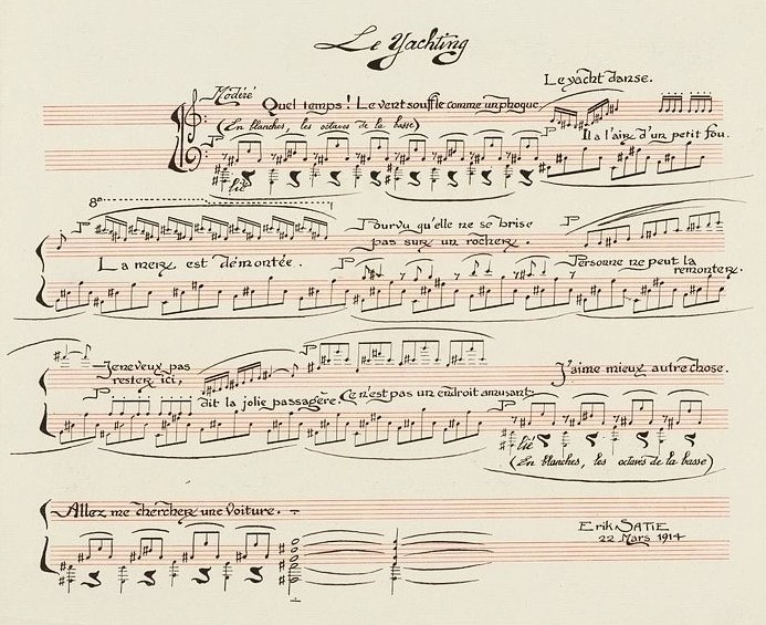 Cropped, adjusted version of PD image on Commons